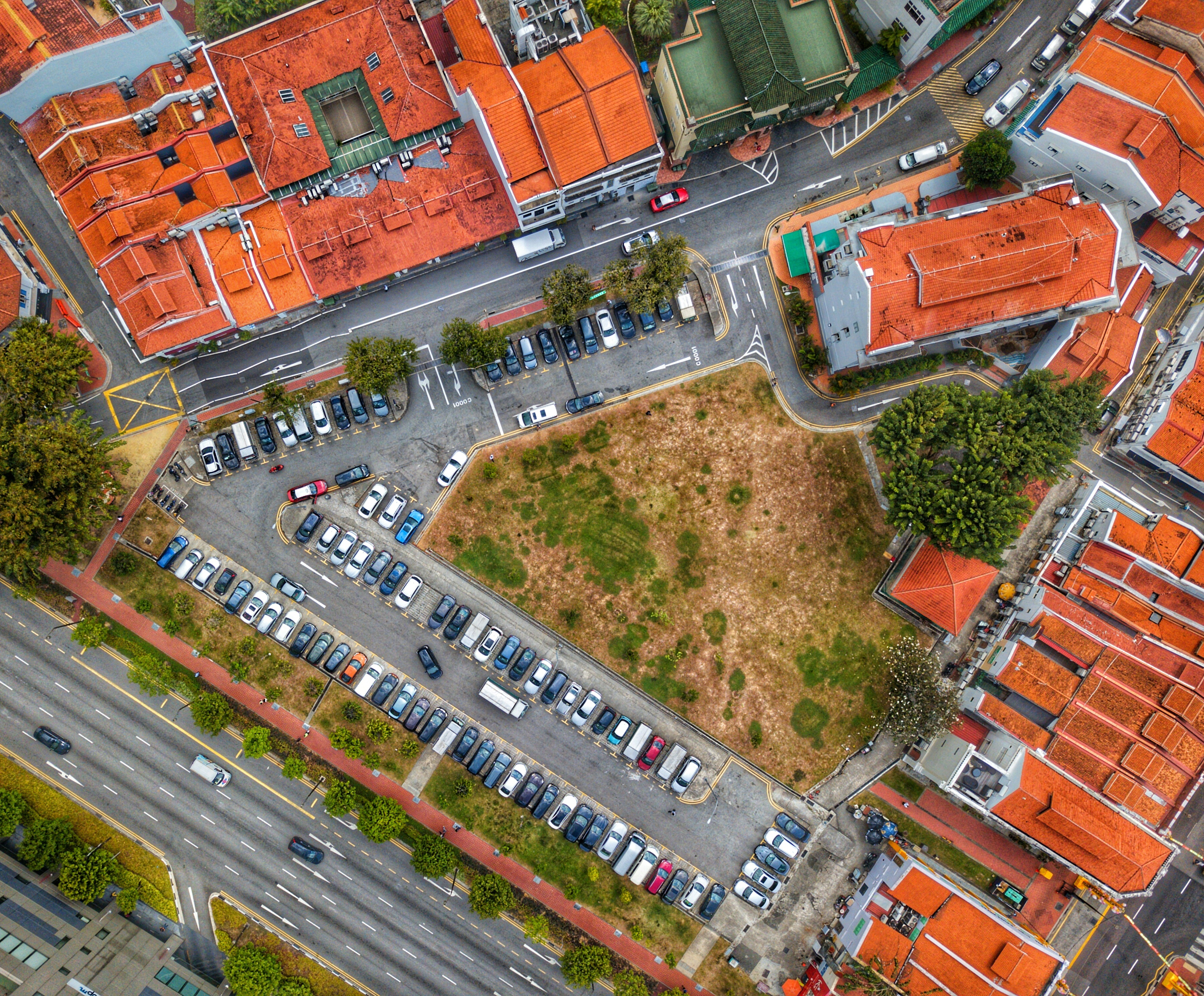 Top down view of a car park near Club Street, Singapore